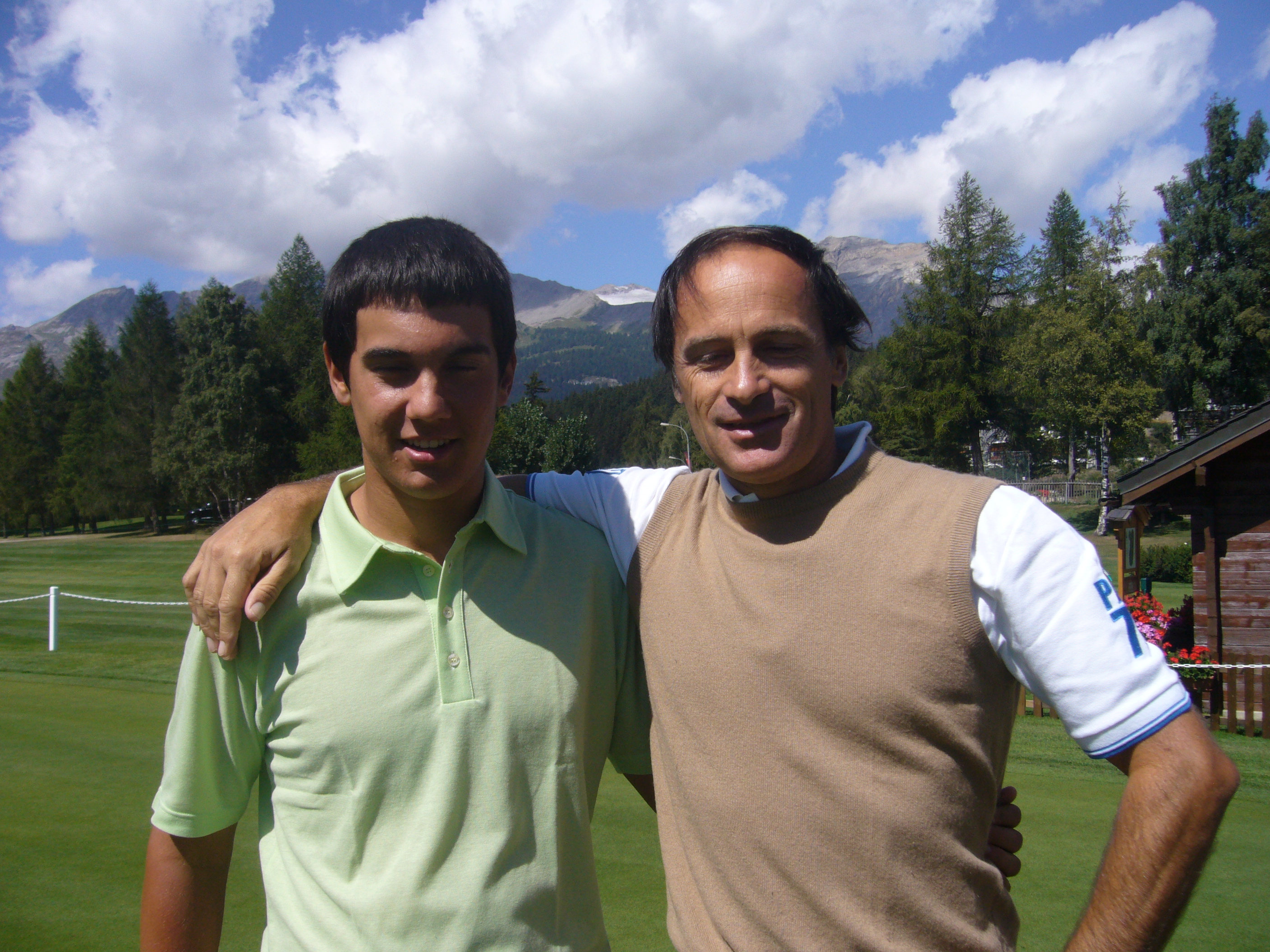 Matteo Manassero en Alberto Binaghi in Crans